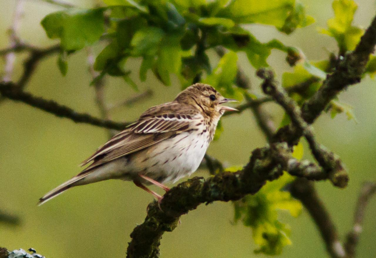 A Tree Pipit in Syddanmark, Denmark.